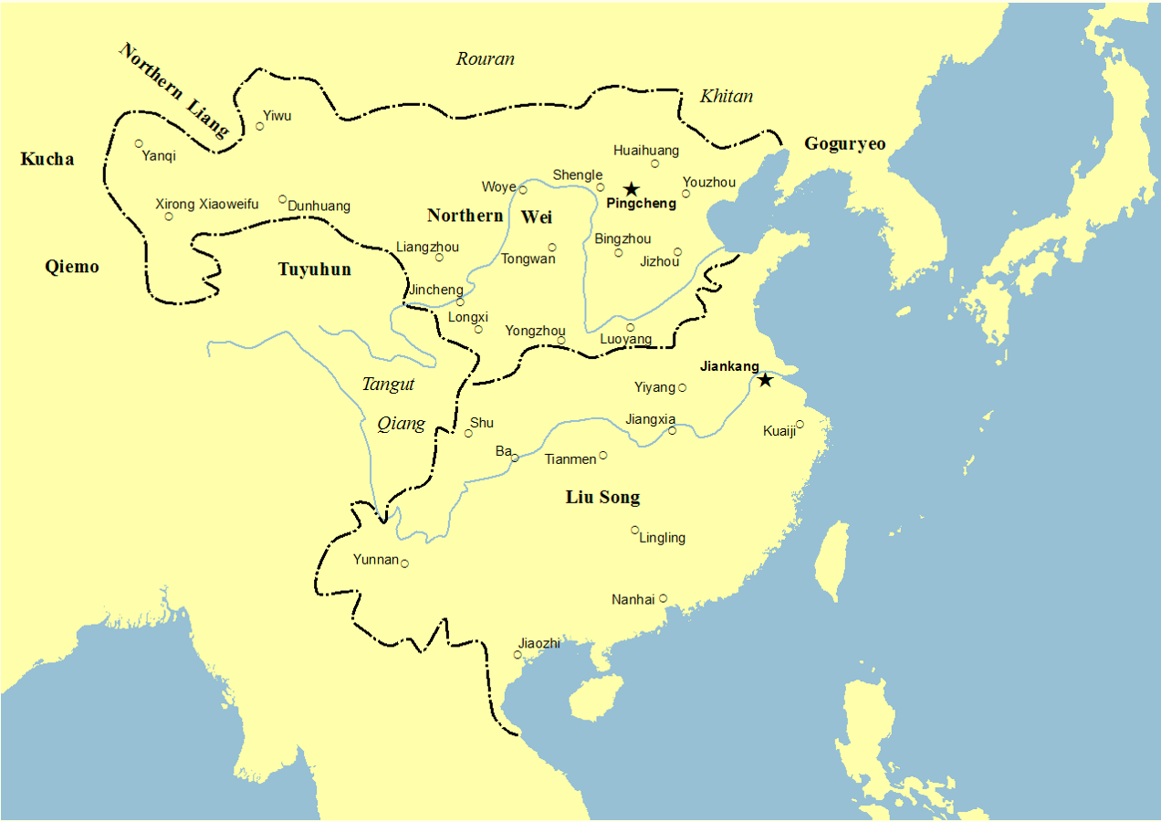 Map showing Northern Wei and Liu Song